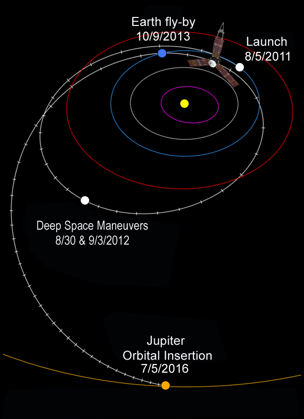 Juno's interplanetary trajectory.